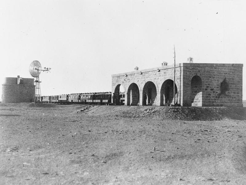 T E Lawrence and the Arab Revolt 1916 - 1918 Hejaz Railway - Station of El Akhthar, 760 km from Damascus, 882 m above sea level.